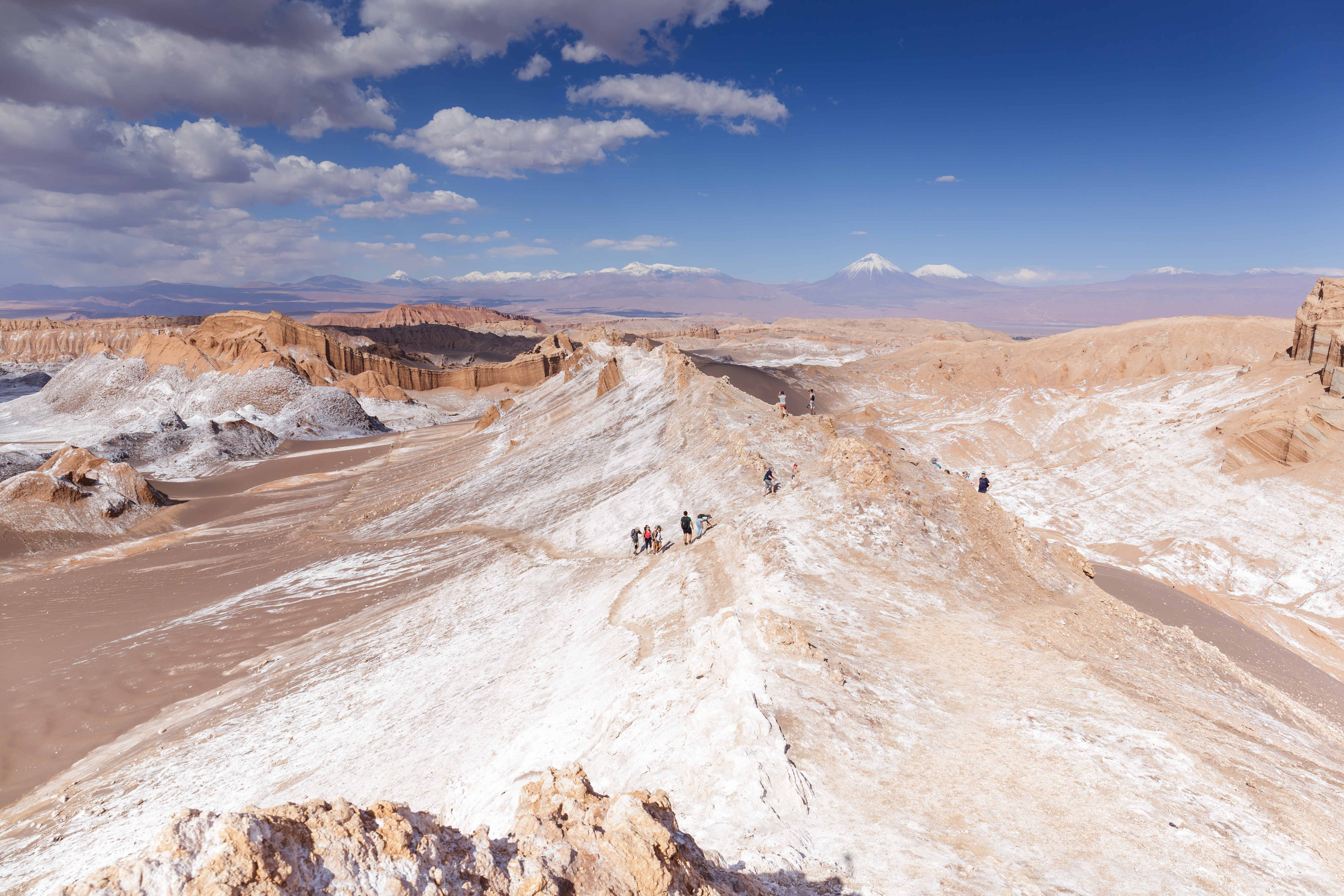 PanAmericana 2017 - the image was taken on an overlanding travel from Ushuaia to Anchorage - taken by Thomas Fuhrmann, SnowmanStudios - see more pictures on / mehr Aufnahmen auf